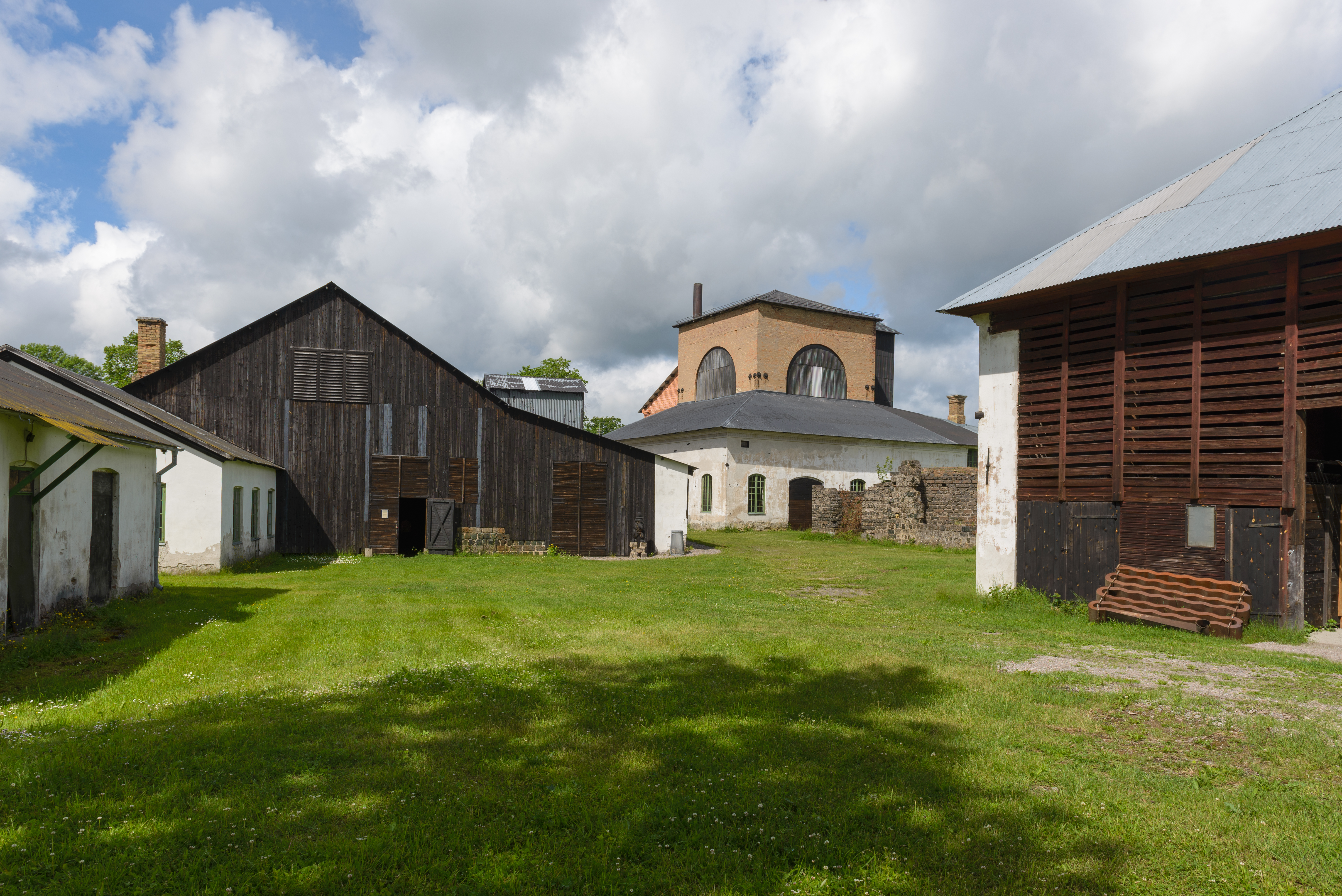 Strömsberg is a old mill and village in Tierp Municipality, Sweden.